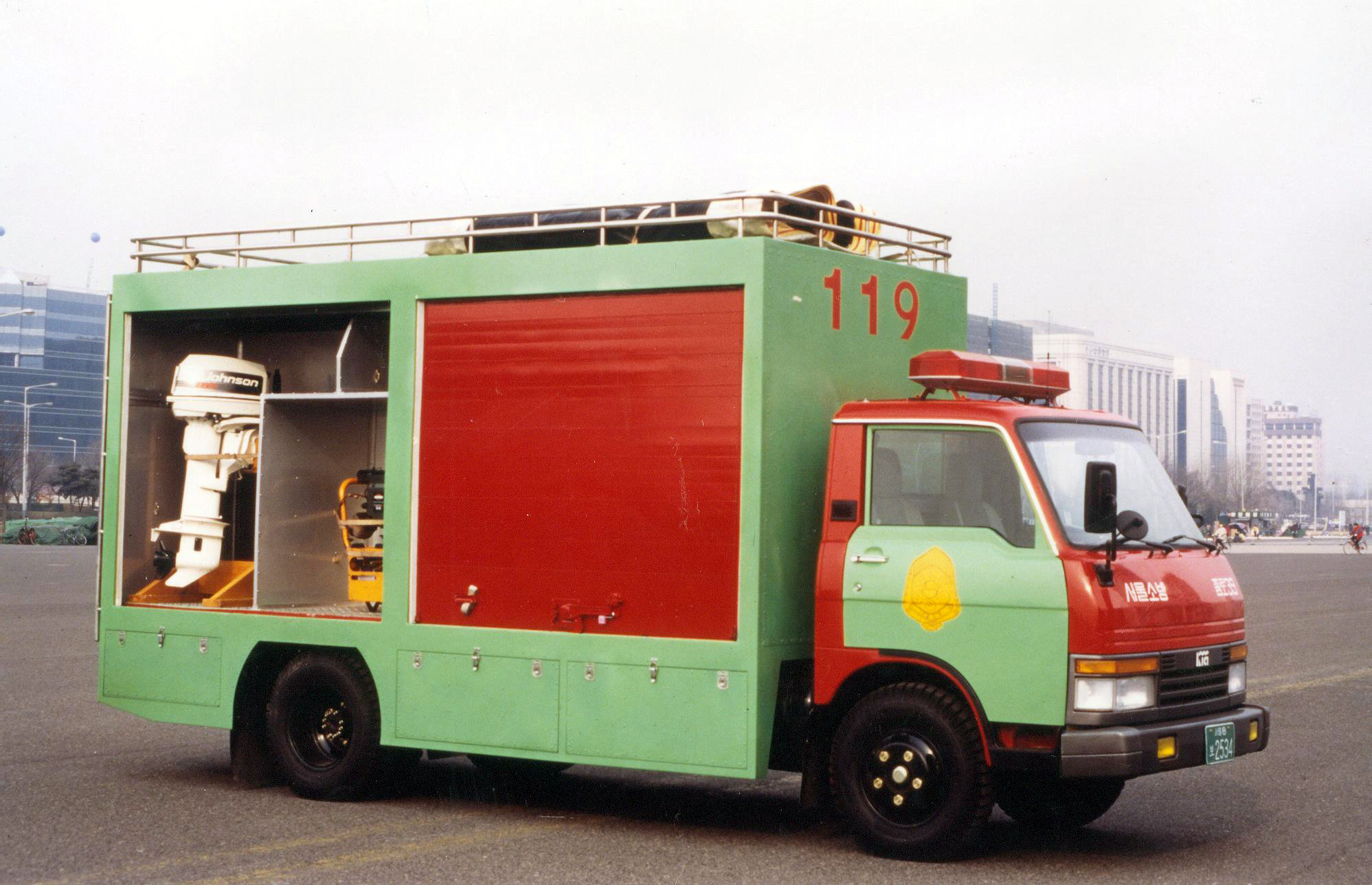 2000년대 초반 서울소방 소방공무원(소방관) 활동 사진